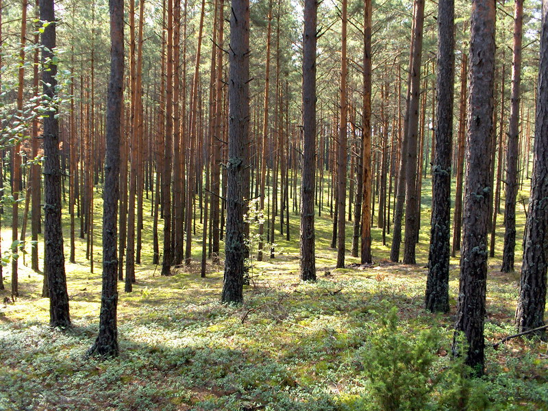 Glūkas forest, Varėna district, Lithuania.